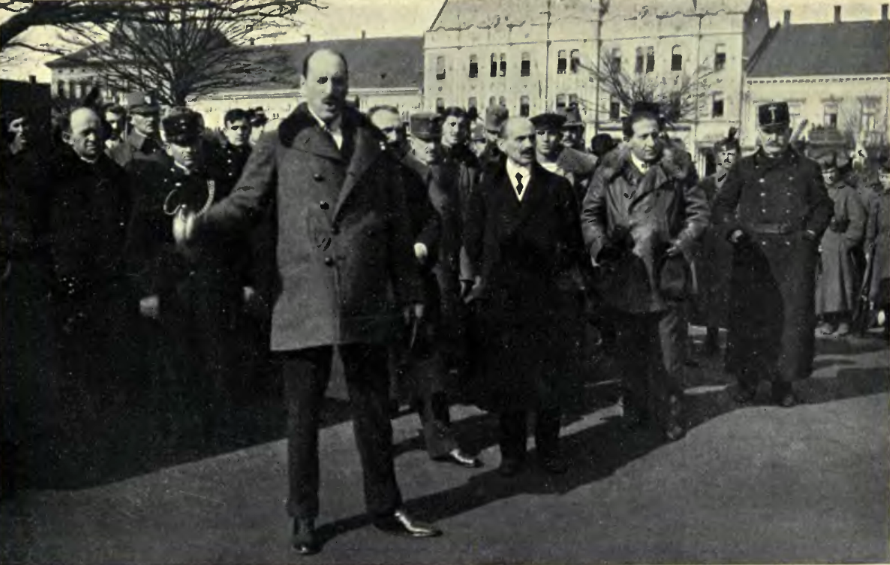 Mihályi Károlyi in a speech